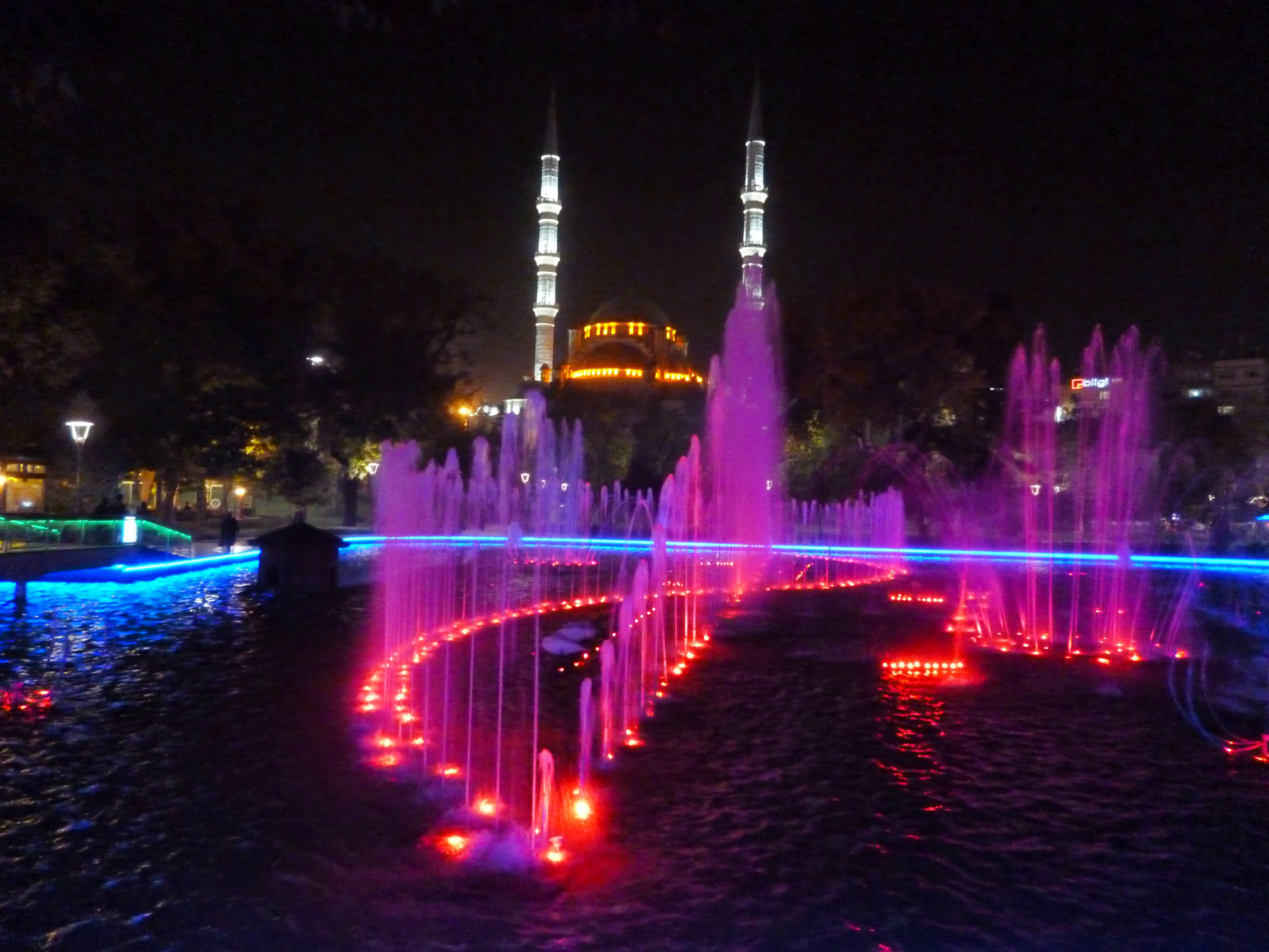 The Hacıveyiszade Cami Mosque in Konya, Turkey shot at night from Central Park.